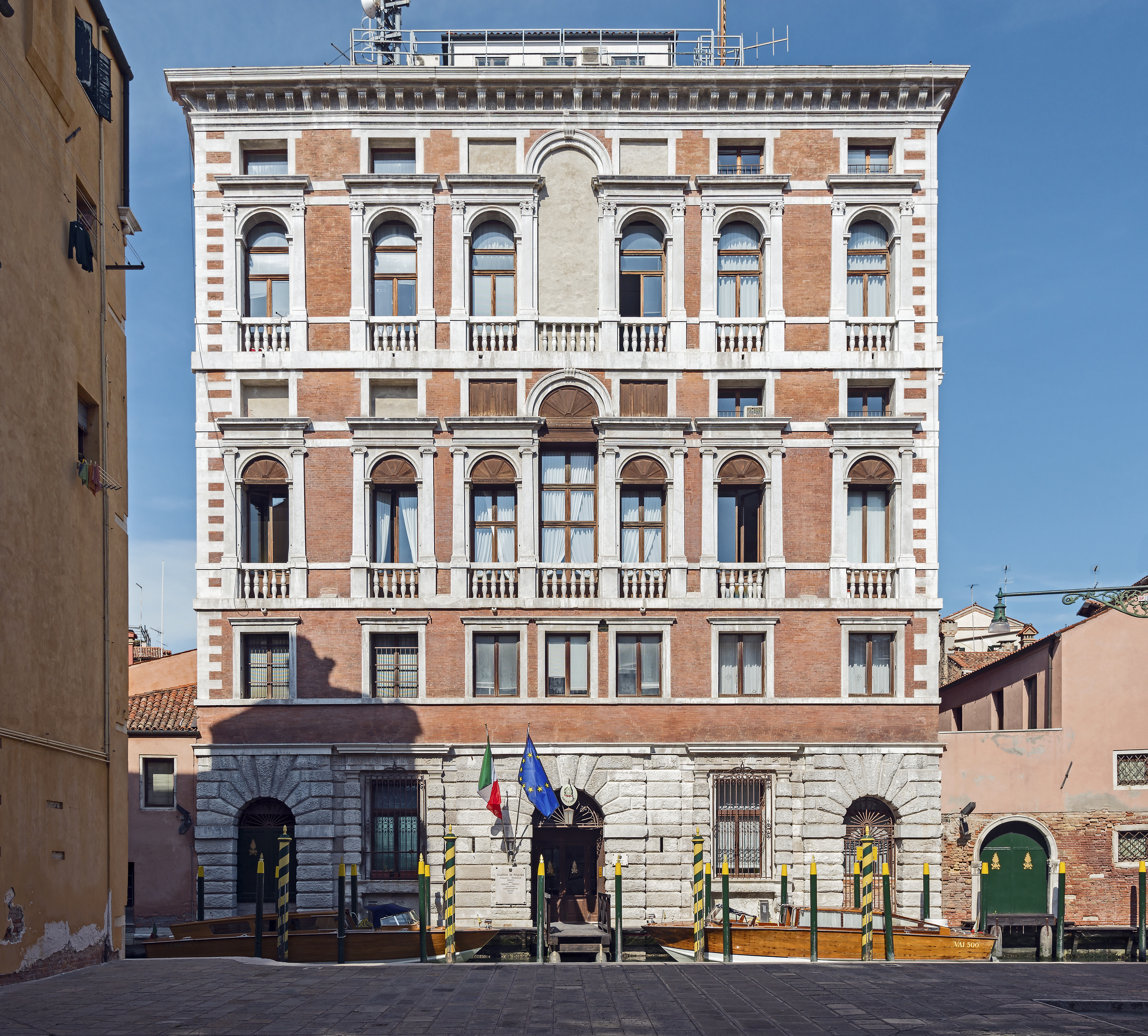 Facade of Palazzo Corner Mocenigo in Venice. One of many palaces owned by the Mocenigo family. It was designed by Michele Sanmicheli for the Corner family between 1474 and 1489 and passed into the Mocenigo family in 1787 by marriage. It currently houses the Veneto regional headquarters of the Financial Police.